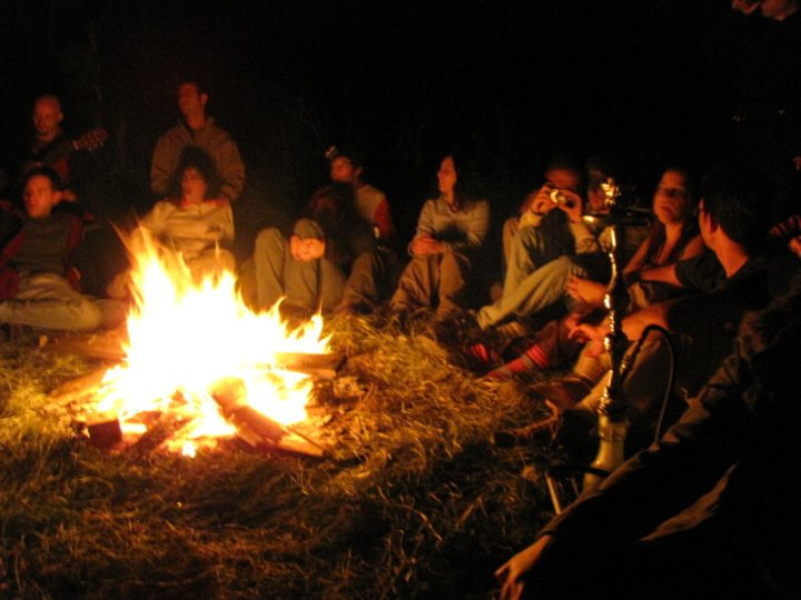 A common campfire event in Israel